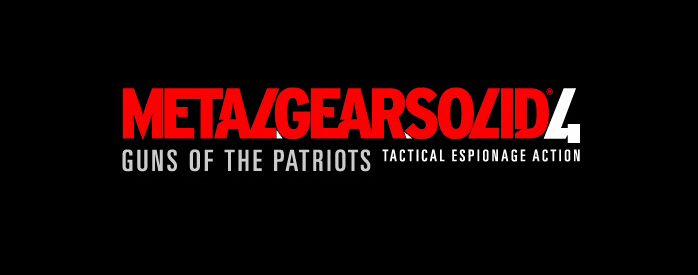 Metal Gear Solid 4 logo. Font known as MGS4brush.ttf